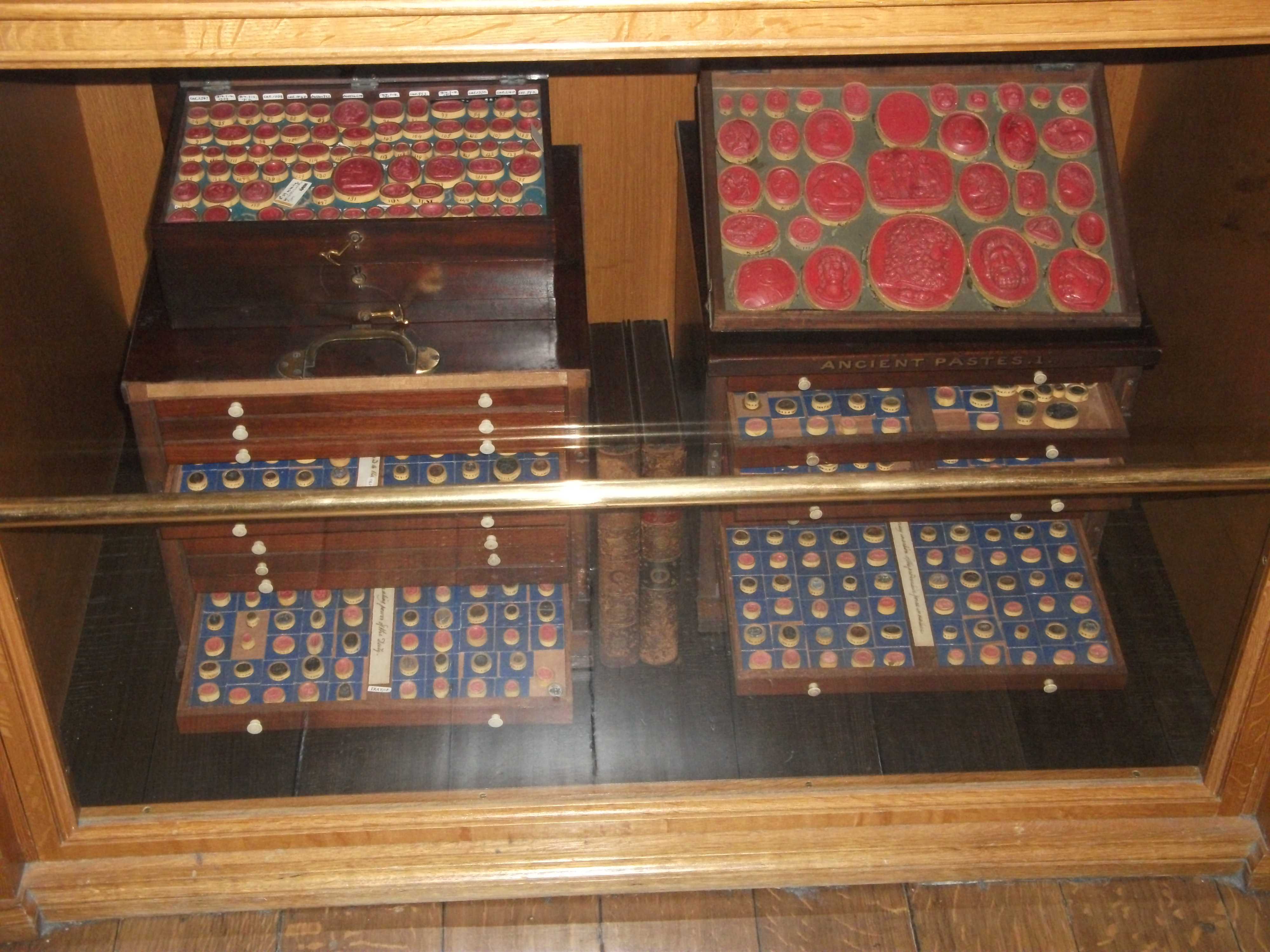 Collectors cases of casts of engraved gems. King's Library, british museum